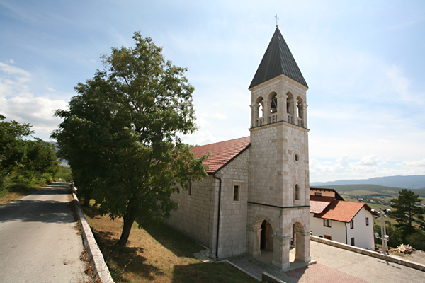 Church in Vidoši.